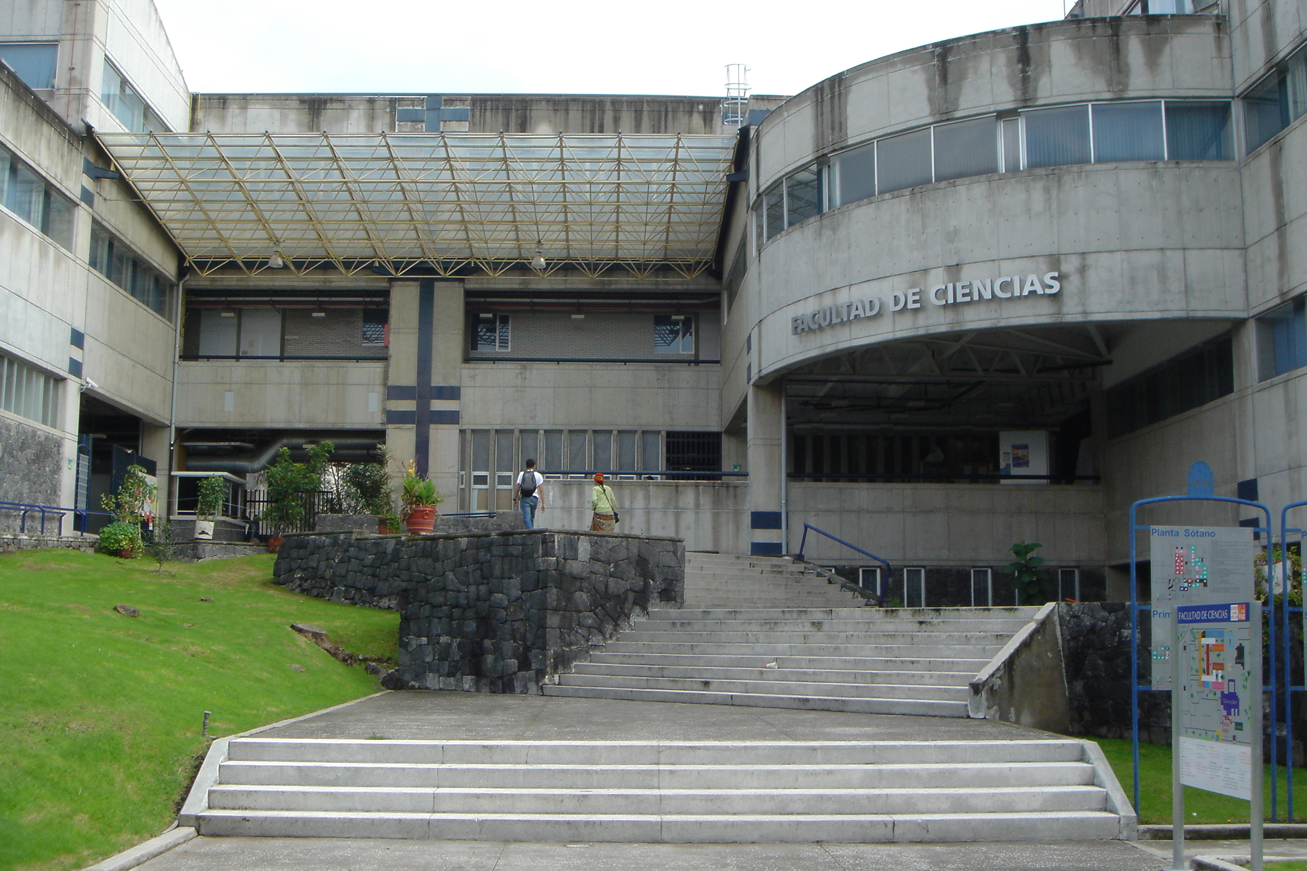 Entrance to the Tlahuizcalpan building of the Faculty of Sciences of the National Autonomous University of Mexico.